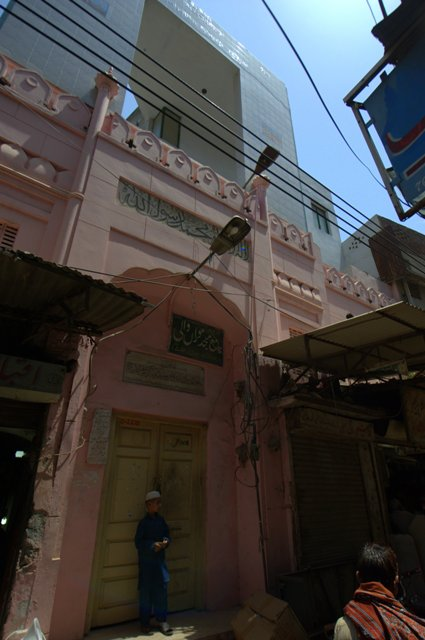 Masjid Moran Tawaif (Masjid Moran Mai) This is a photo of a monument in Pakistan identified as the PB-P-138